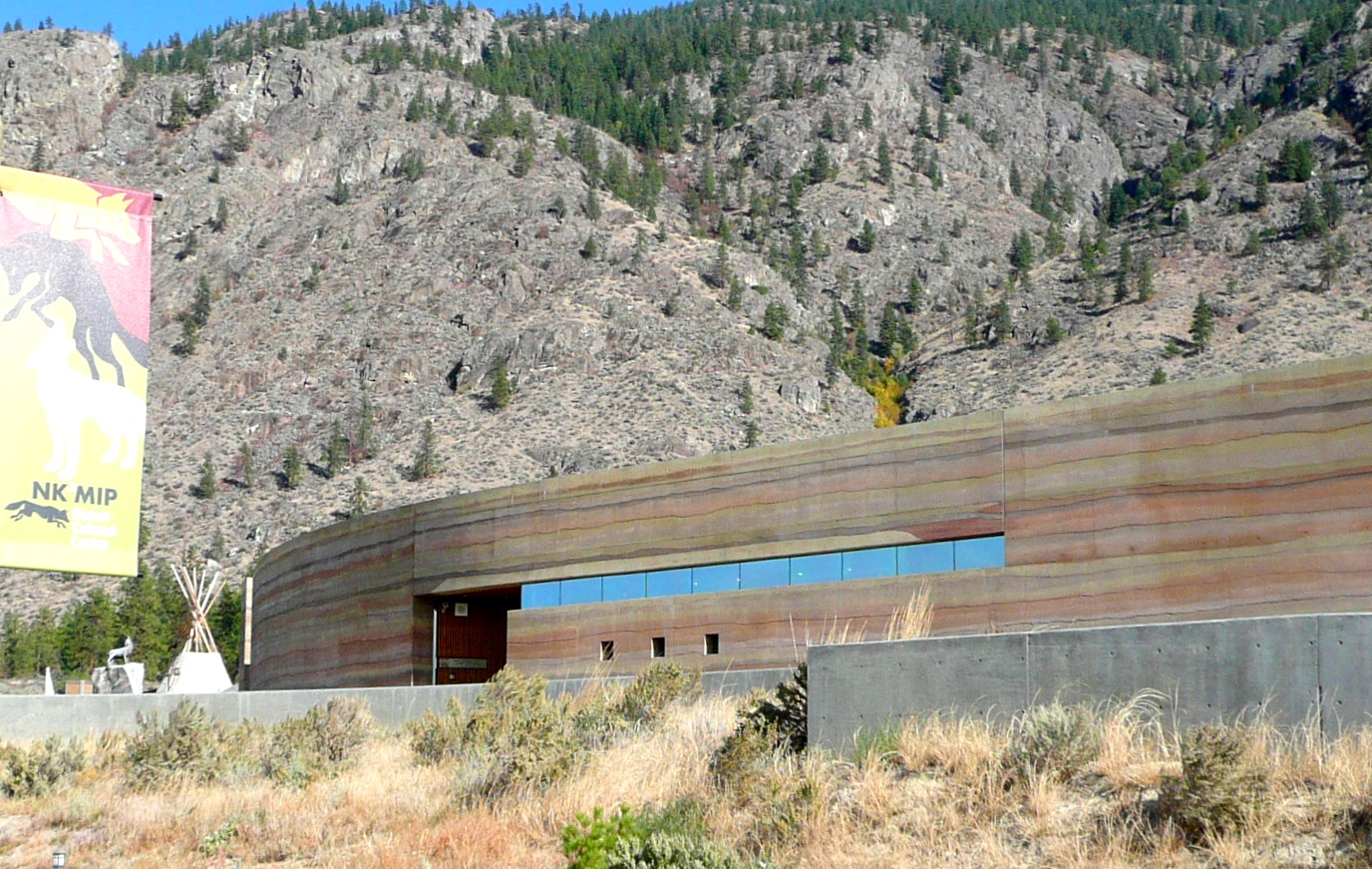 Nk'Mip Desert Cultural Centre - main entry with rammed earth wall and hills of the Okanagan Desert behind.